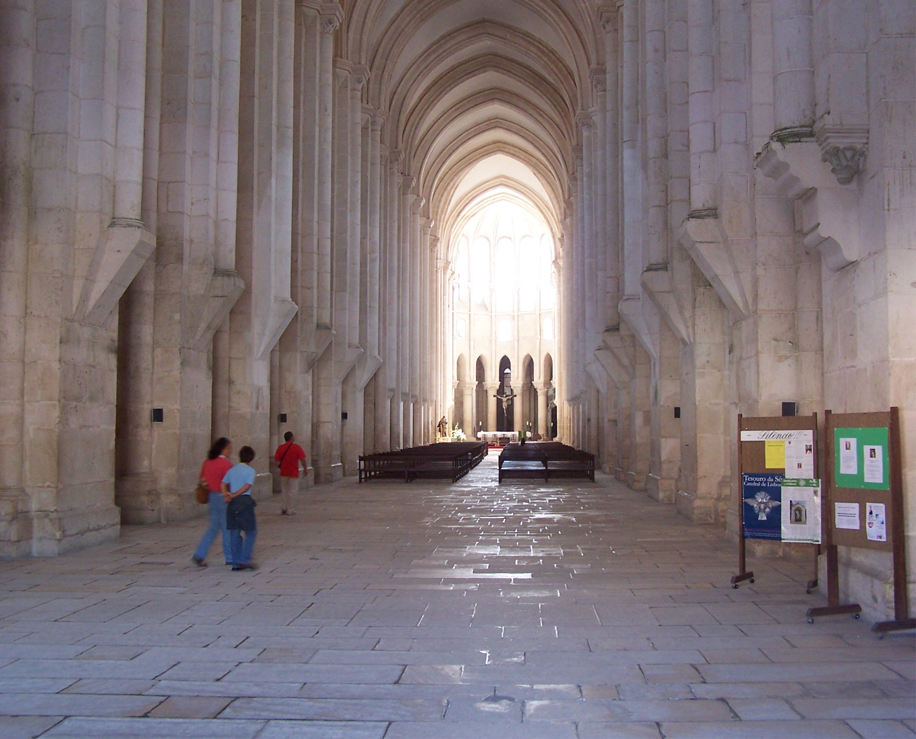 Nave of the church of Alcobaça Monastery, Portugal